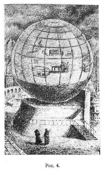 Alexander Belyayev - Illustrations in science fiction